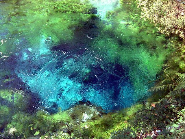 Syri i Kaltër, or the Blue Eye, is a well known natural cold water spring in Sarandë, Albania